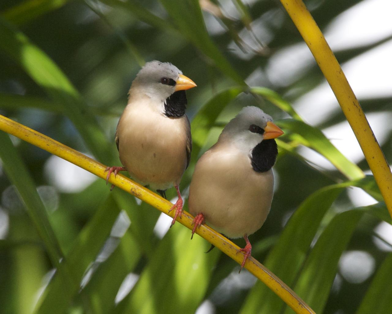 Long-tailed Finches in Wulagi, Darwin, Australia.